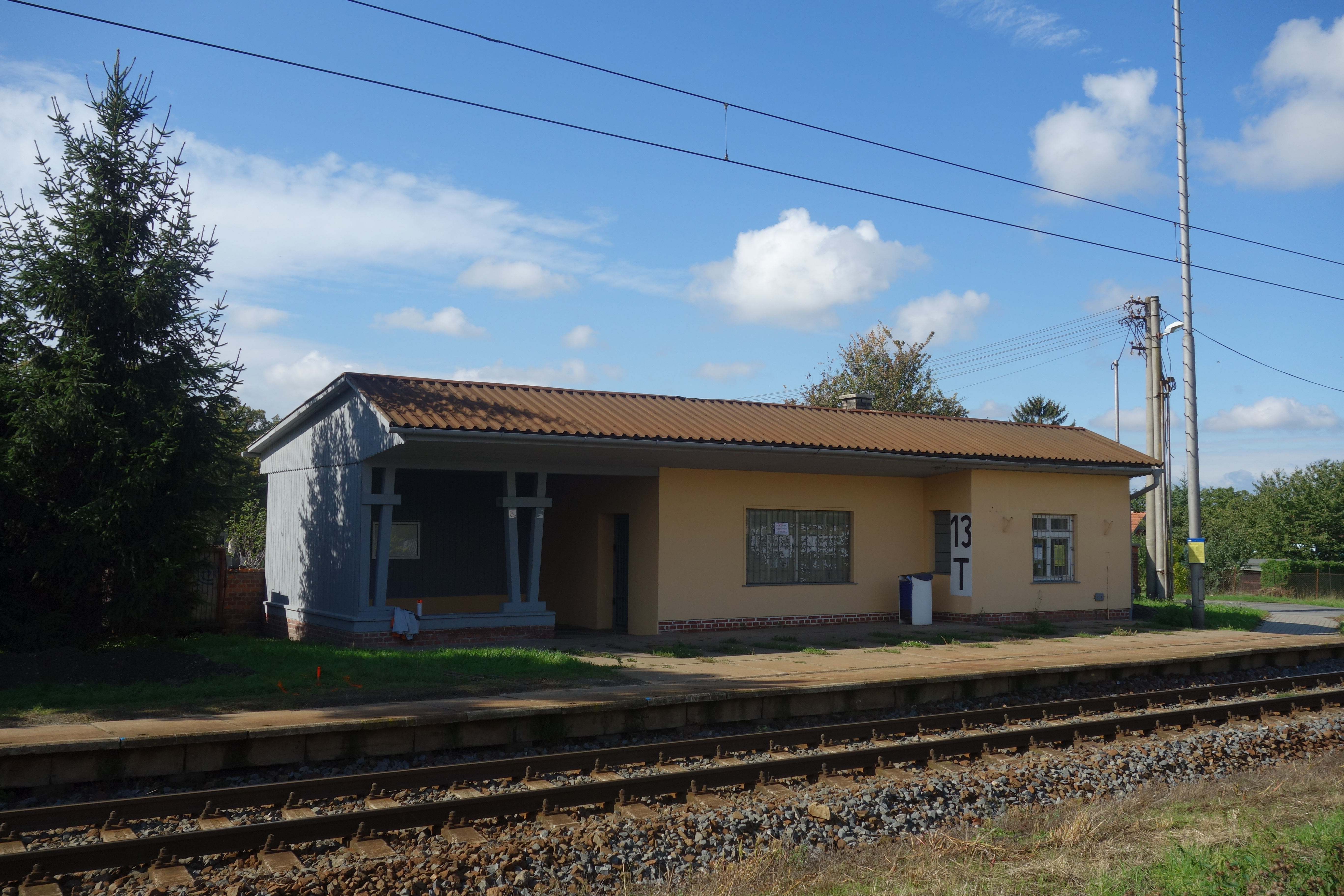 Vrahovice train station